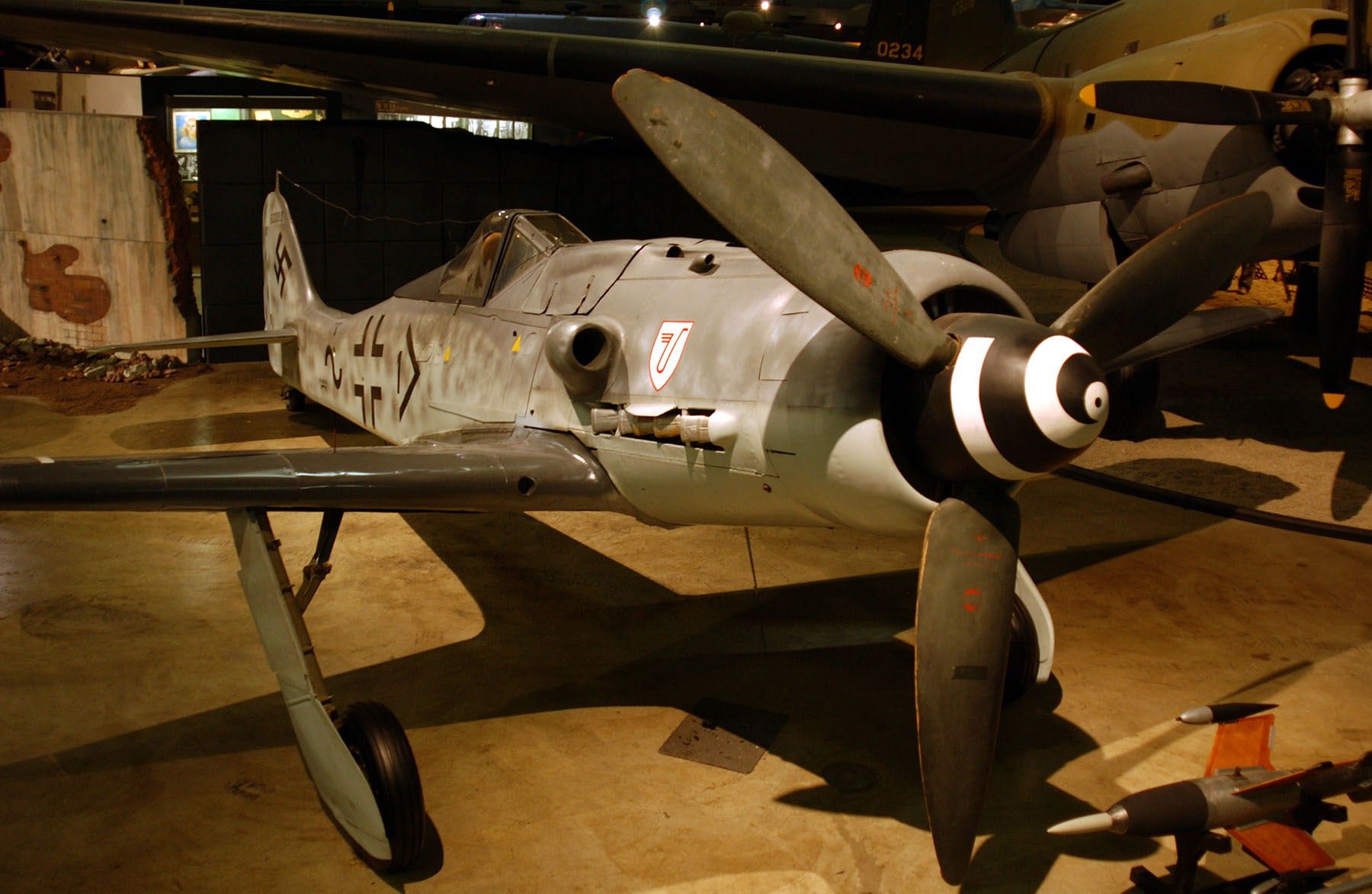 DAYTON, Ohio -- Focke-Wulf Fw 190D-9 in the World War II Gallery at the National Museum of the United States Air Force.